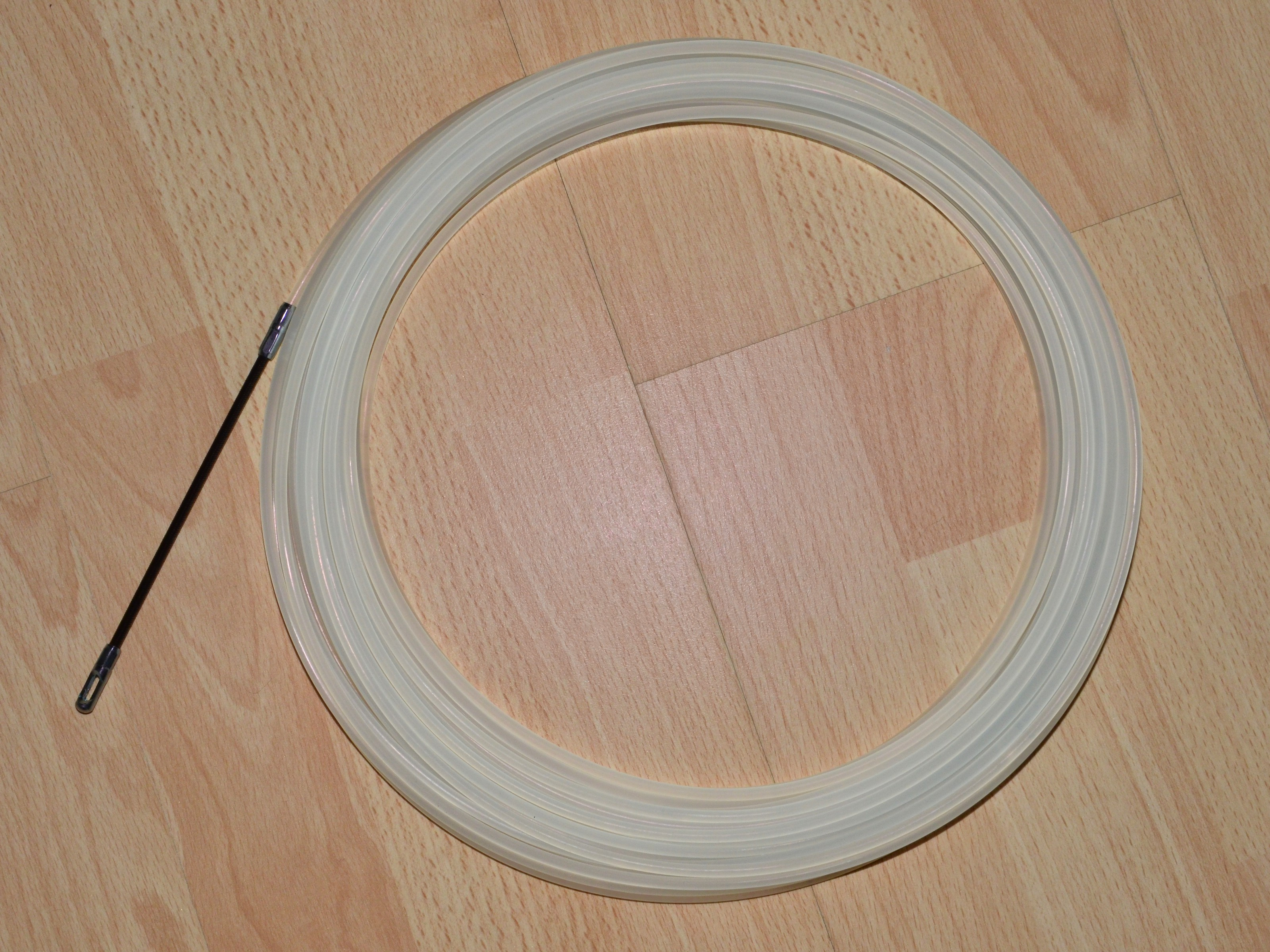 A fishing broach